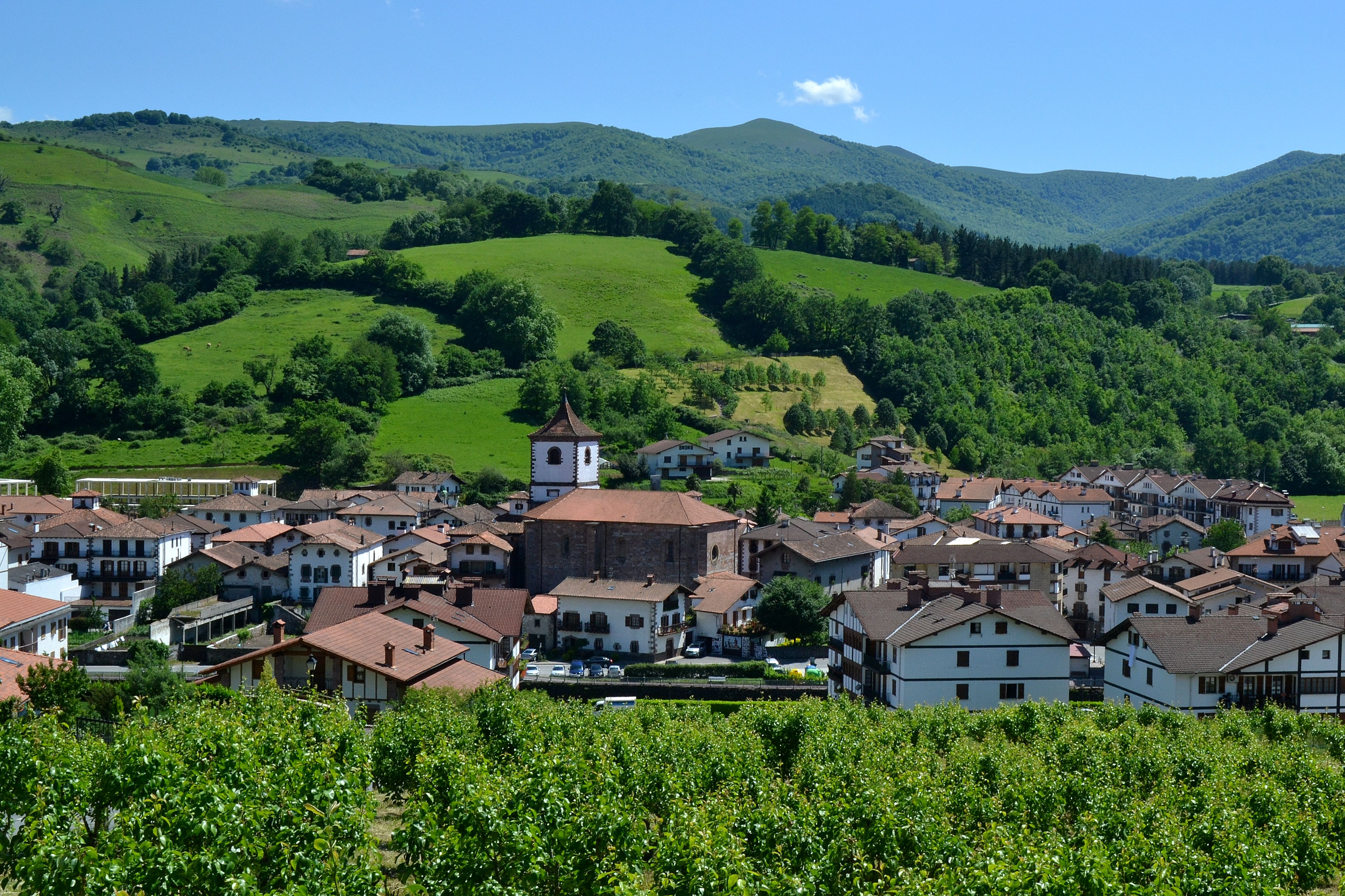 Doneztebe. Malerreka, Navarre. Basque Country.